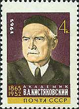 academic USSR and RF - Kistiakovskiy Vladimir Aleksandrovich (1865-1952)